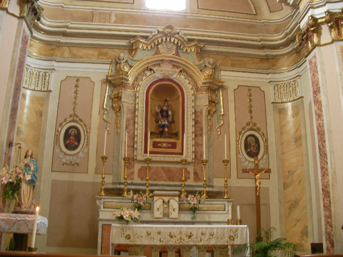 The altar of the church of St. Michele to Atessa